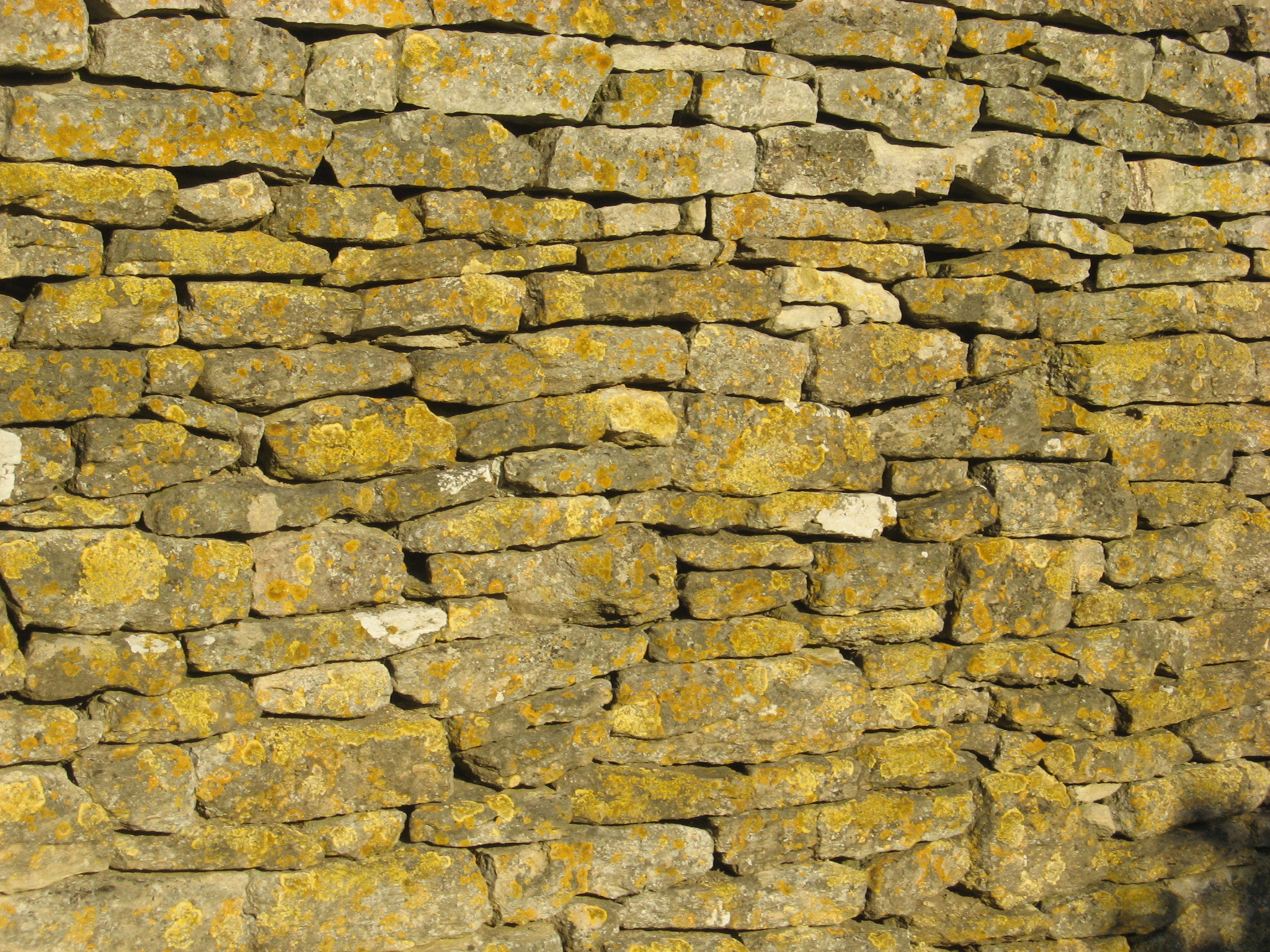 Cotswold dry-stone wall at Chalford, Gloucestershire.